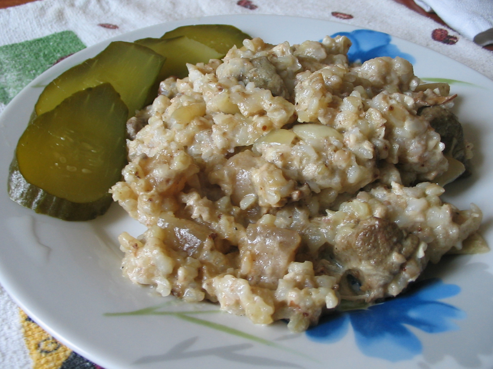 Buckwheat groats baked in caul fat with veal liver, served with pickled cucumbers